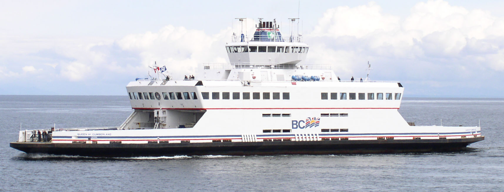 BC Ferry Queen of Cumberland IMO Number: 9009360 MMSI Number: 316001252 Callsign: VG2029 Length: 96 m Beam: 22 m